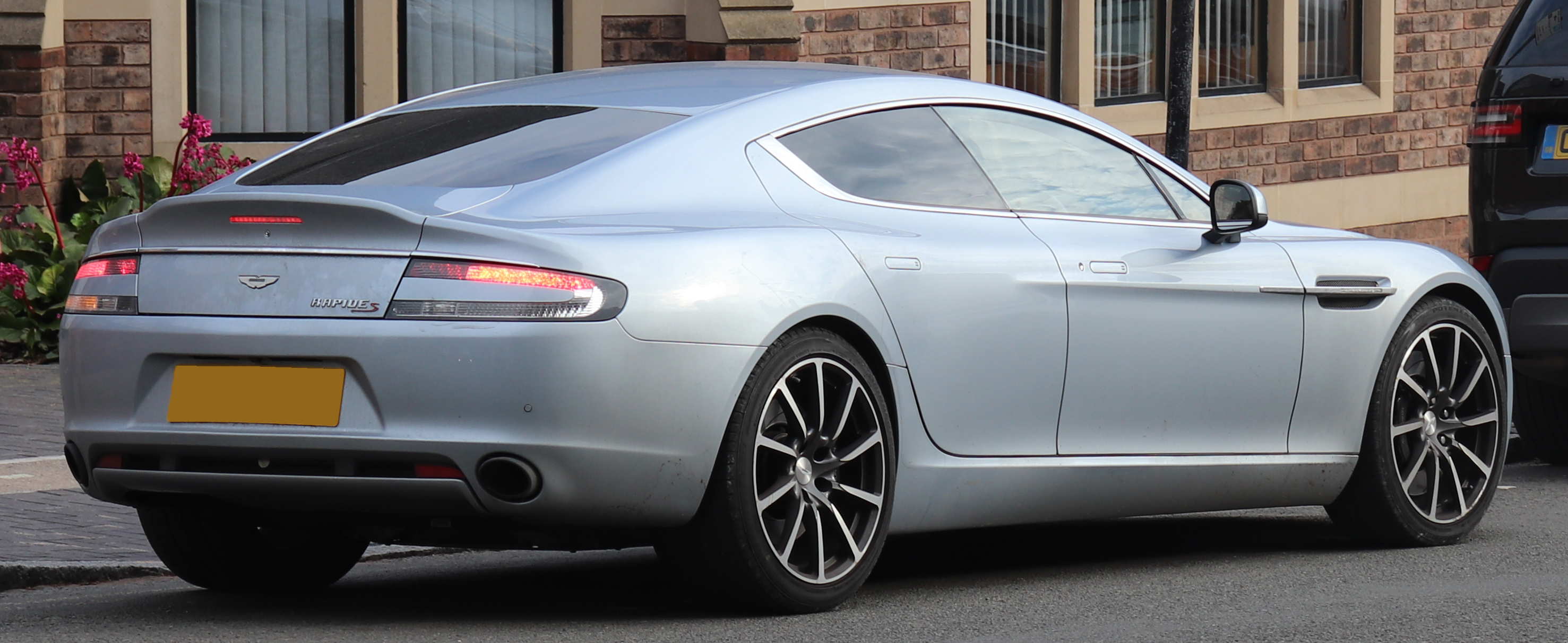 2016 Aston Martin Rapide S V12 Automatic 6.0 Rear Taken in Warwick